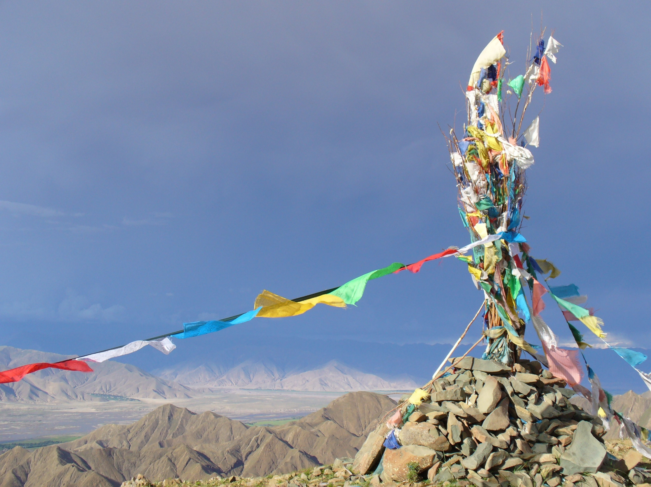 Lhapsa-Tibet